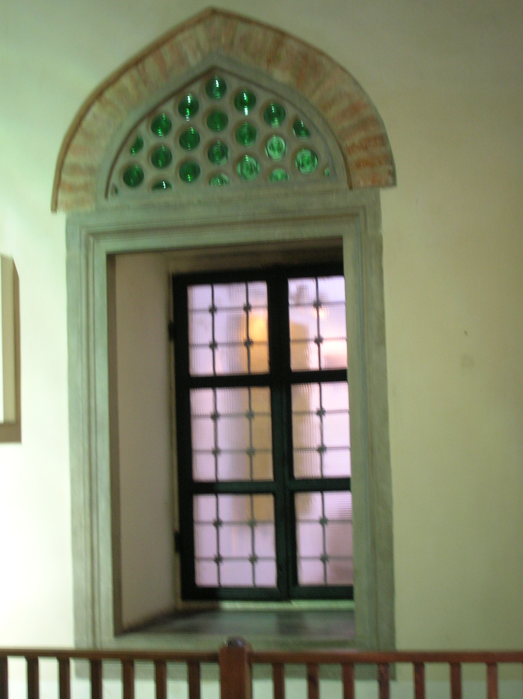 Window of the Yakovali Hassan mosque, Pécs, Hungary.